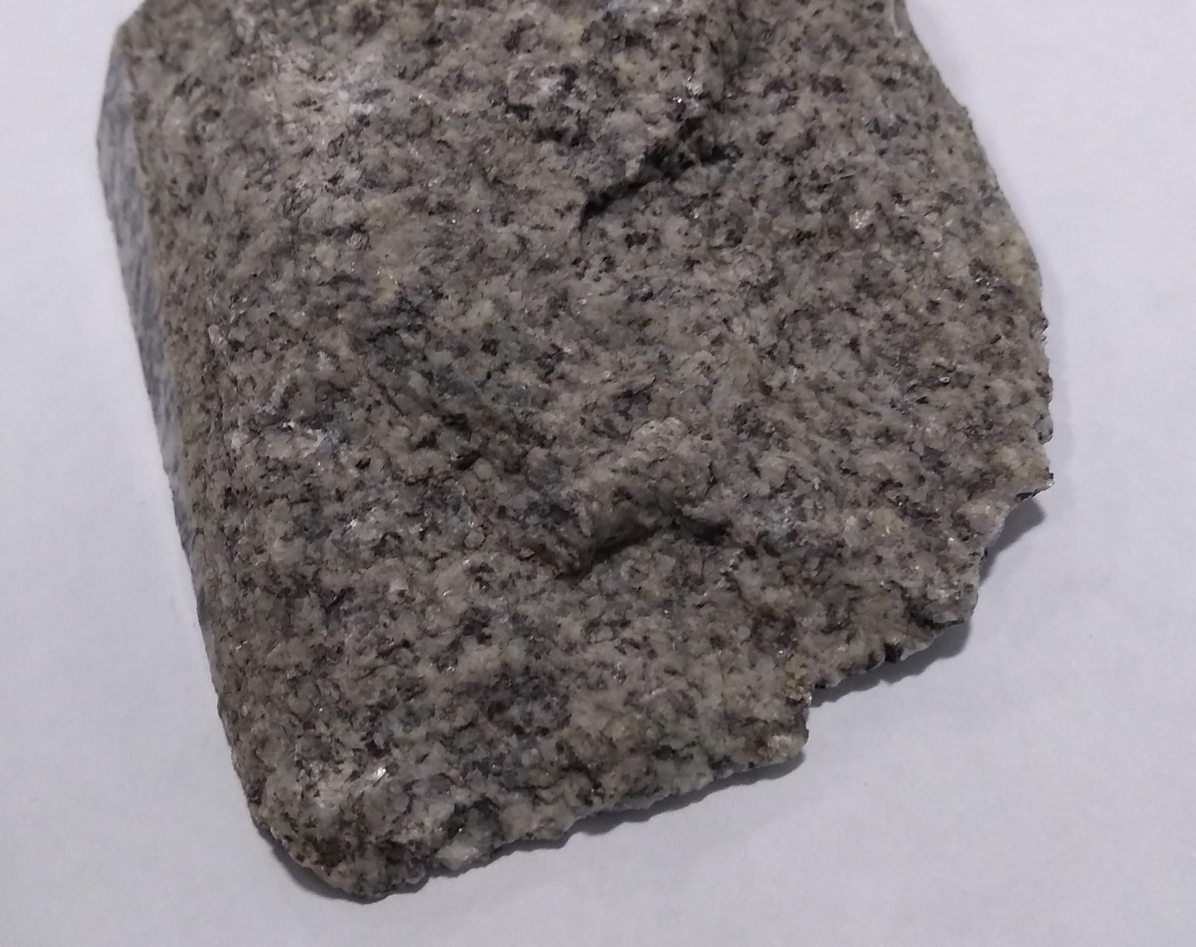 Piece of rock that has been fractured